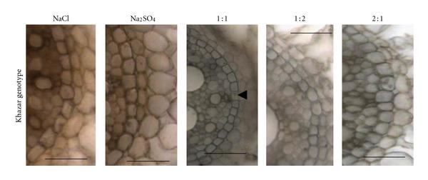 Deposition of suberin lamellae in endodermis of two rice genotypes roots. Black arrowheads show passage cells. Bar = 100 μ m.